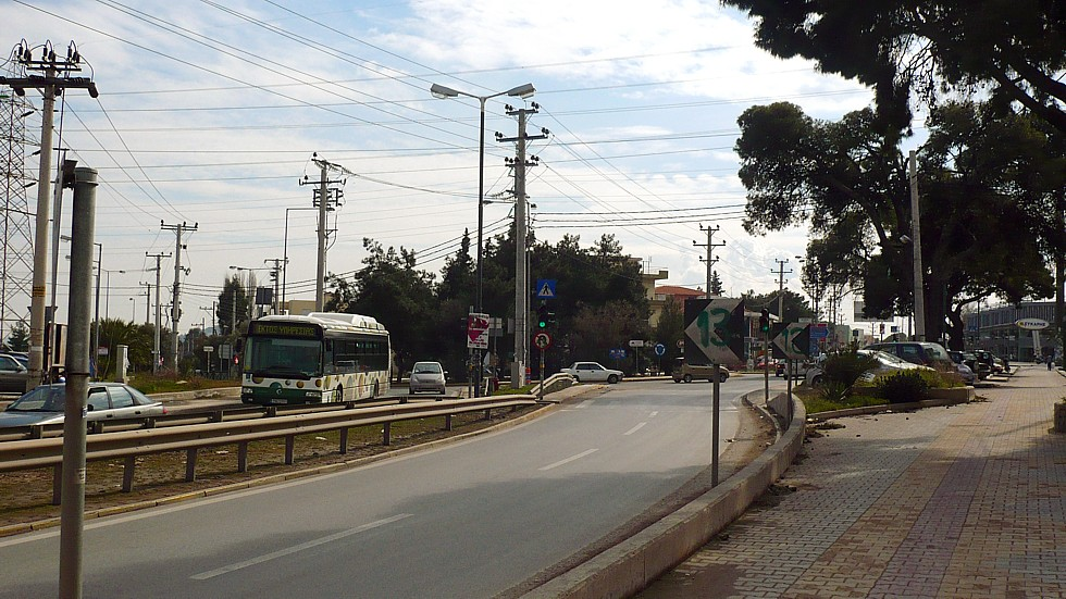 The picture depicts the Glika Nera circular node.